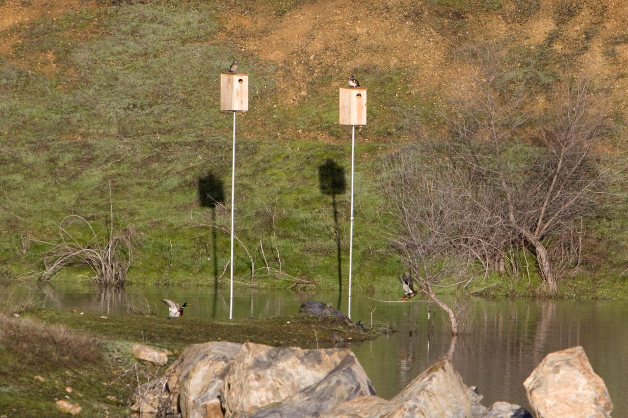 Wood duck (Aix sponsa) nestbox